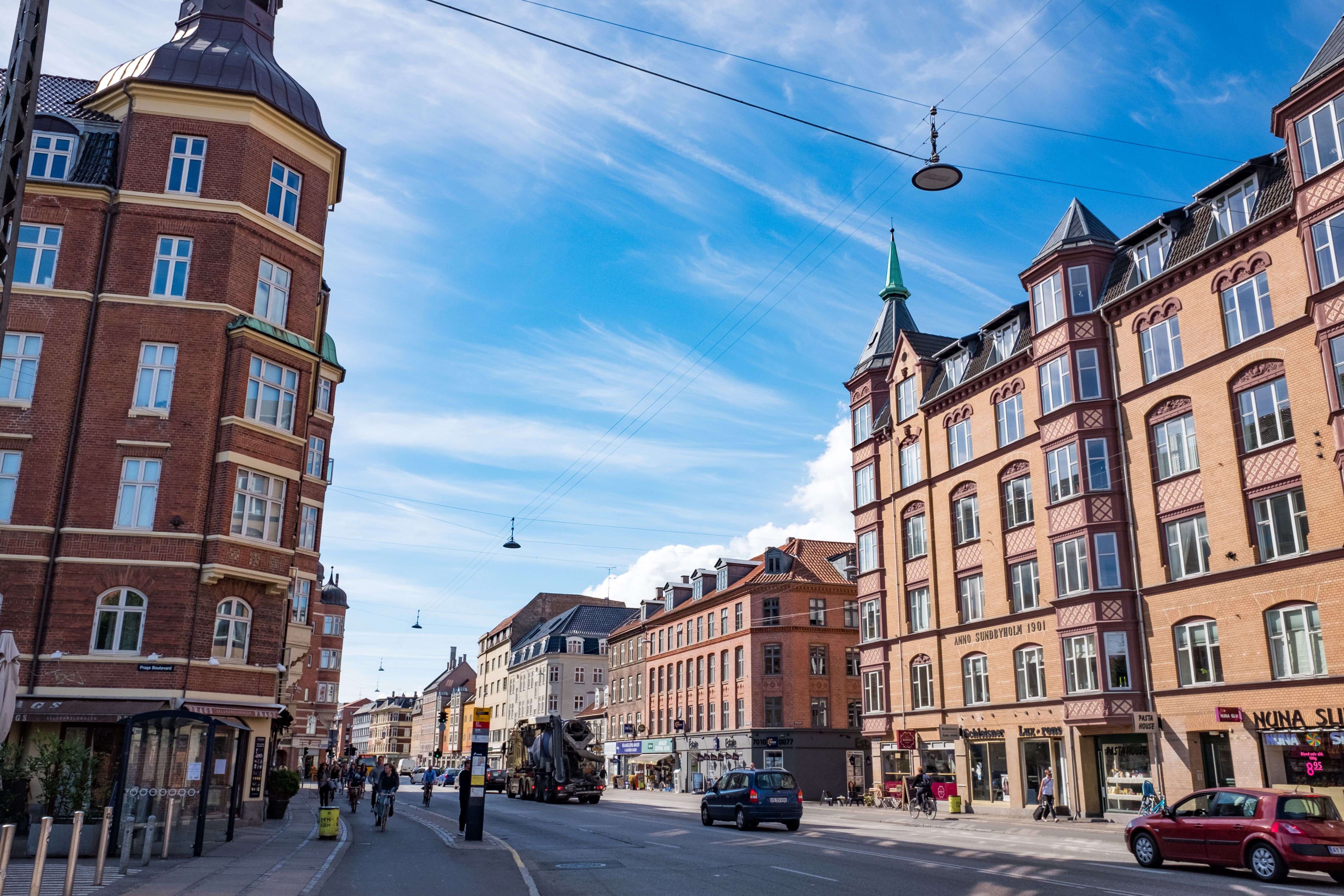 Amagerbrogade viewed from the corner of Prags Boulevard in Copenhagen, Denmark